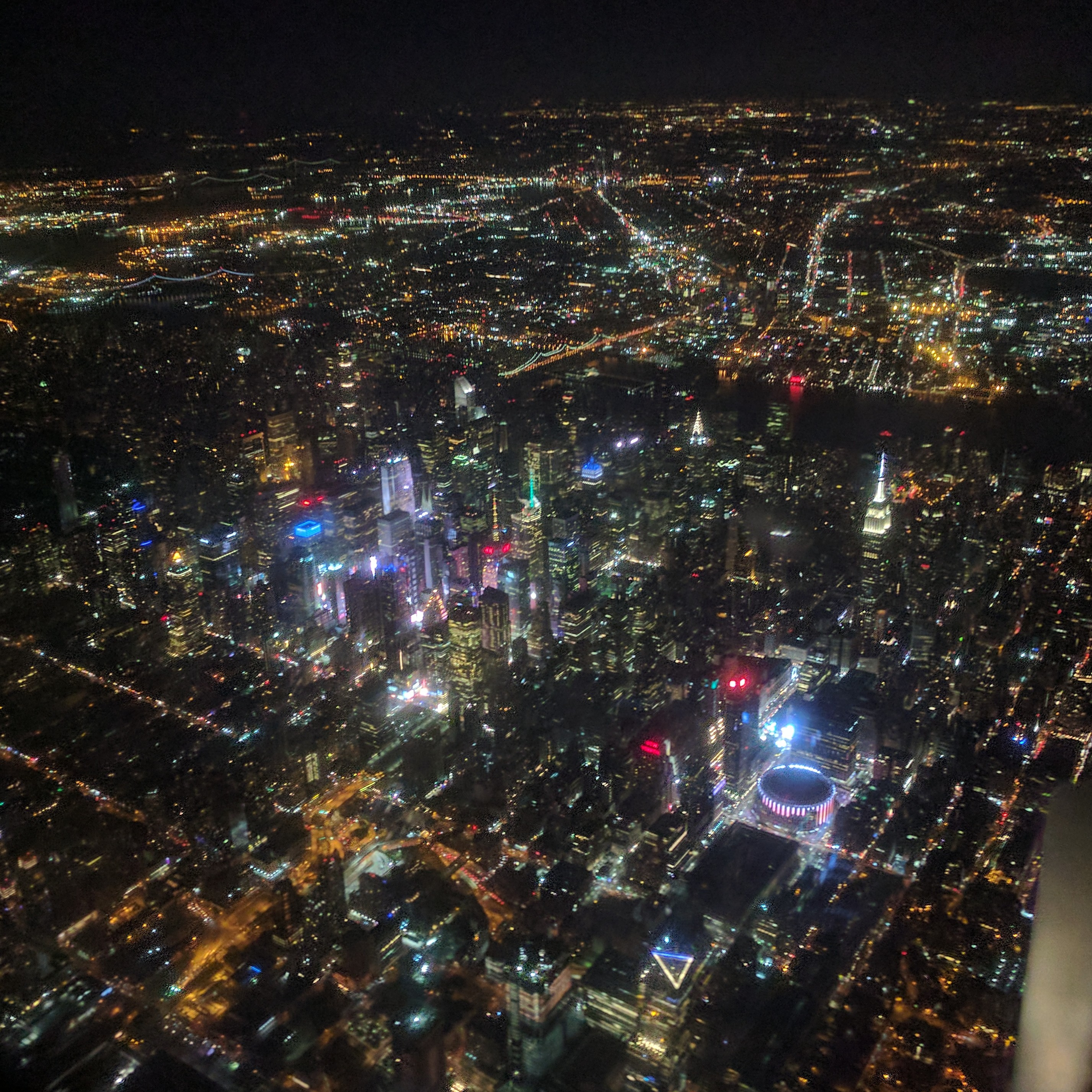 Midtown Manhattan from a plane flying over Hudson River towards LaGuardia Airport, New York City, USA